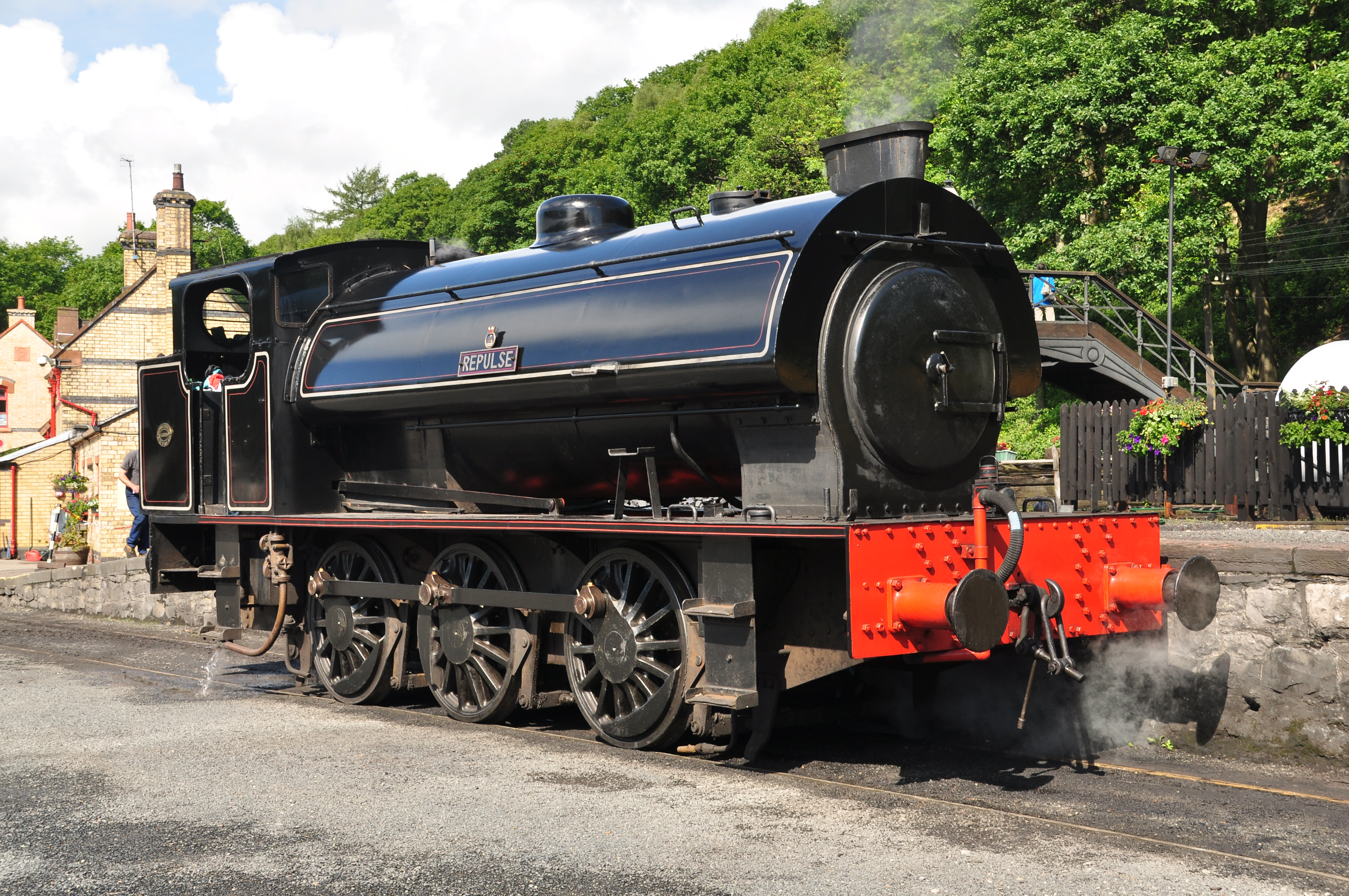 Repulse at Haverthwaite railway station